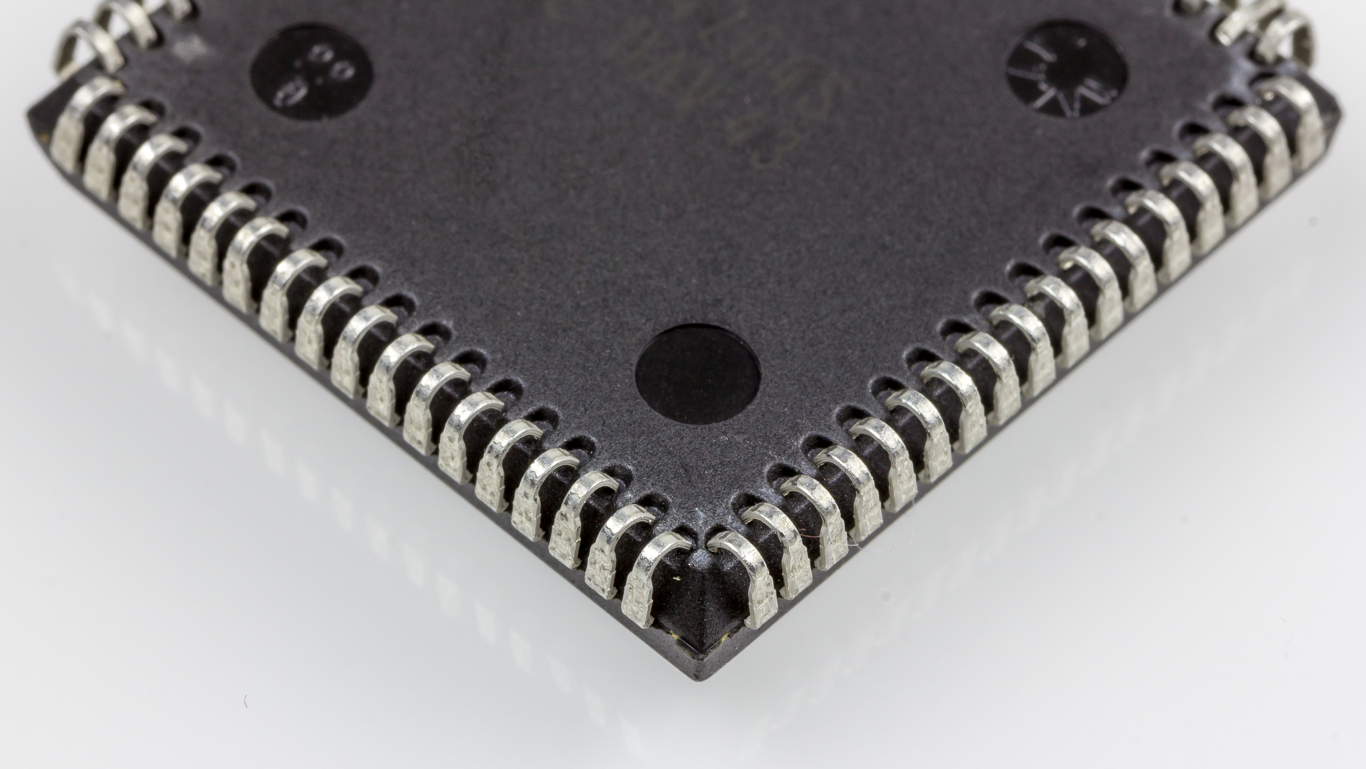 Intel N80C186XL12. Reverse side: J-shaped metal leads